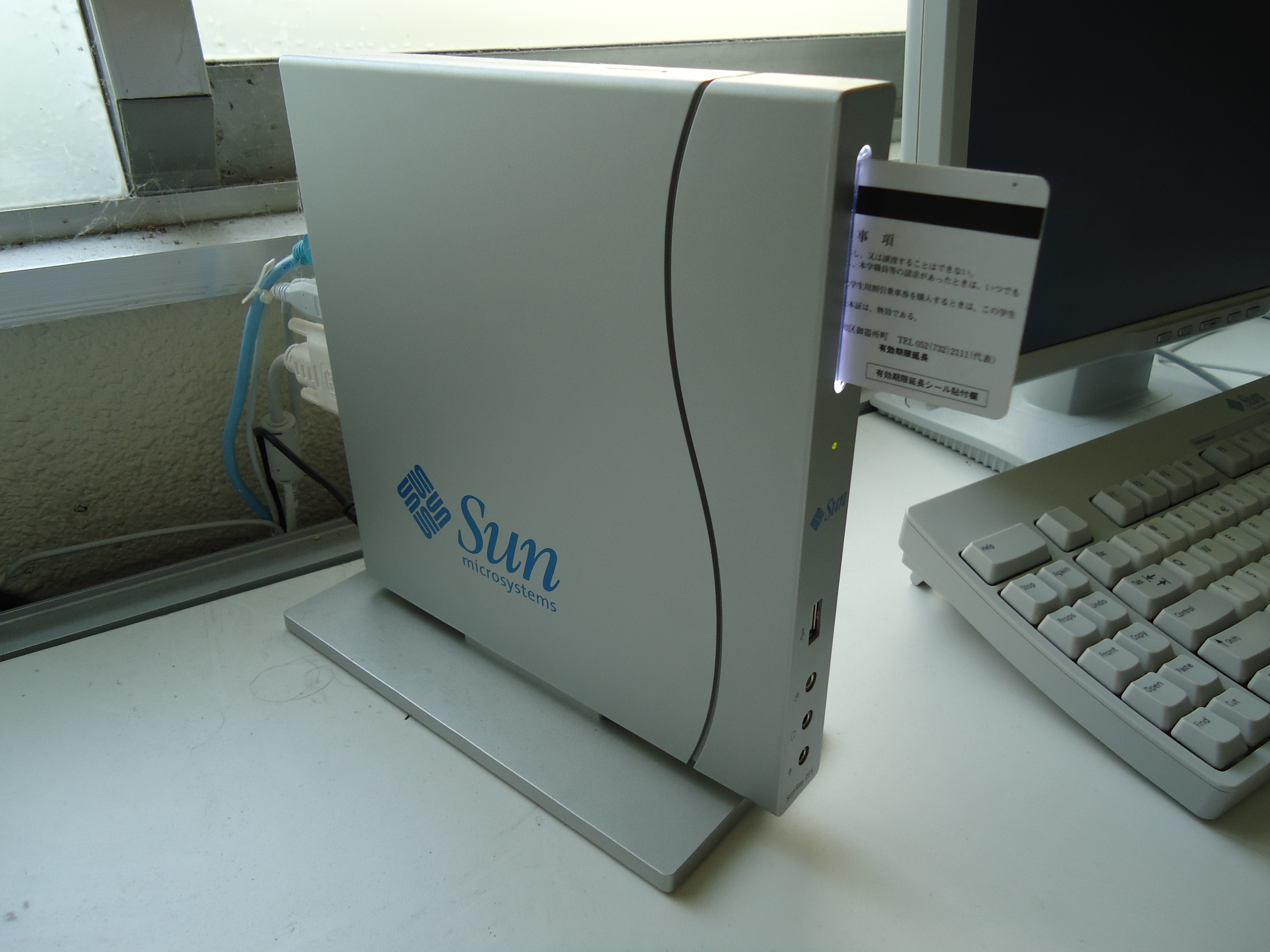 the body of a machine which inserted Smart Card